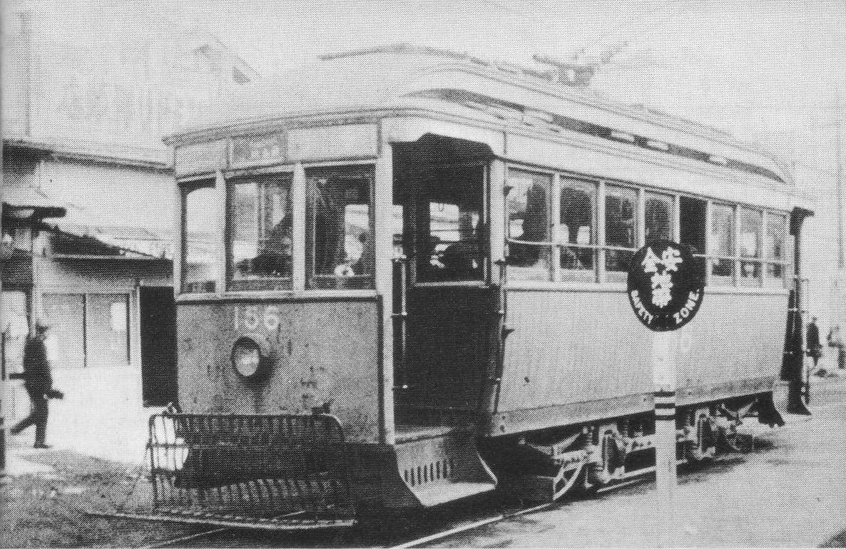 Yokohama City Tram #156. taken in 1924.